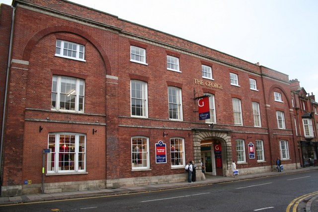 The George